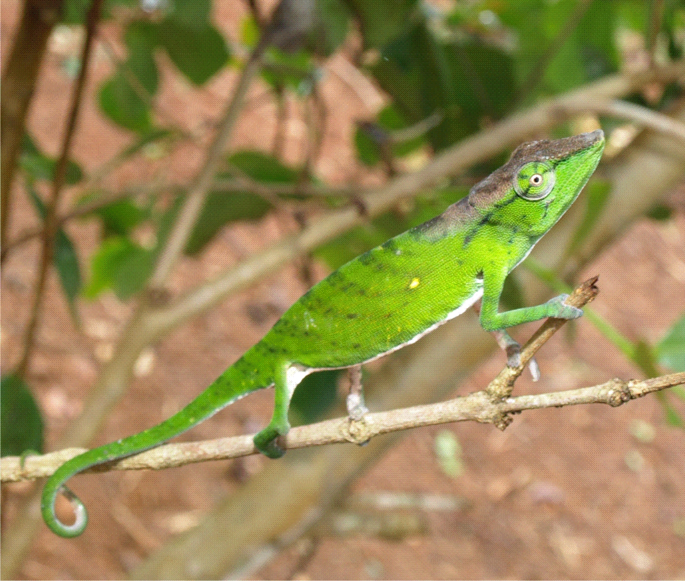 Male Calumma tarzan from Tarzanville, Eastern Madagascar